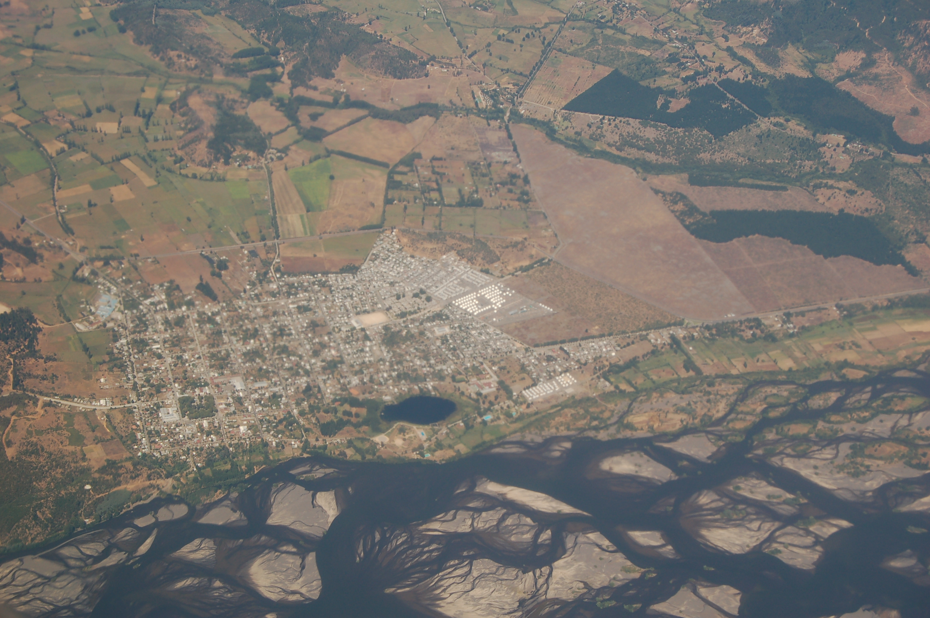 aerial photograph of Santa Juana(Chile)